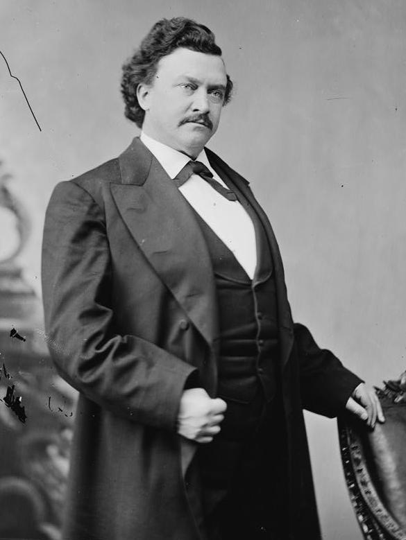 Hon. Benj J. Franklin of Missouri